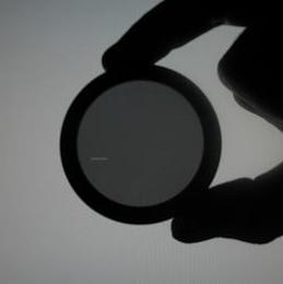 A polarizer in front of a flat screen monitor (the light from the flat screen is polarized). Continued in the pictures : Polariseur5.JPG, Polariseur1.JPG, ...